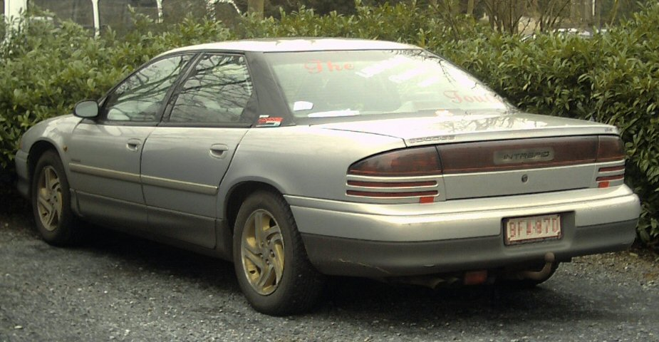 Dodge Intrepid, 1993-1997, left-back view